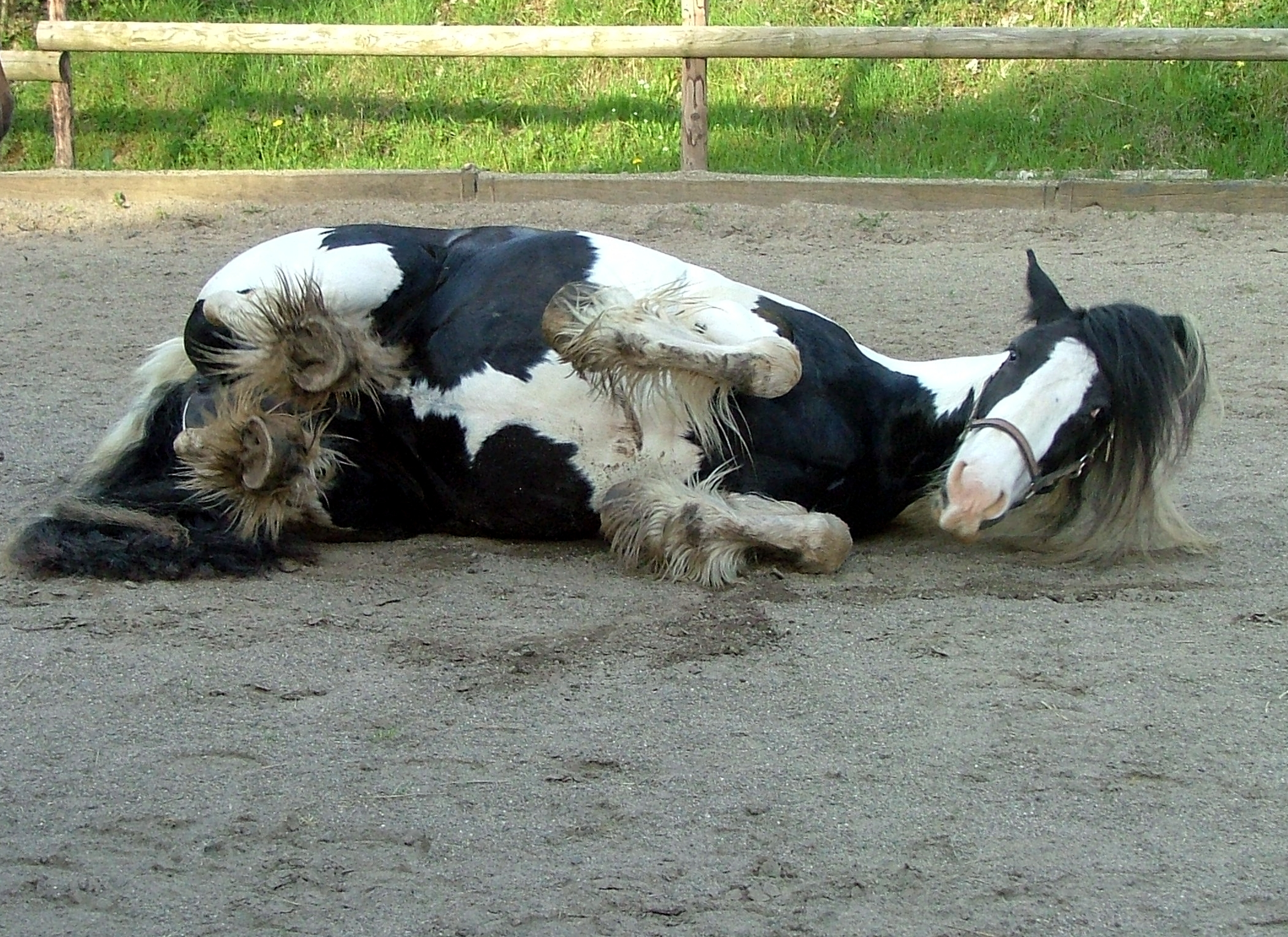 Gypsy Vanner mare takes sand bath